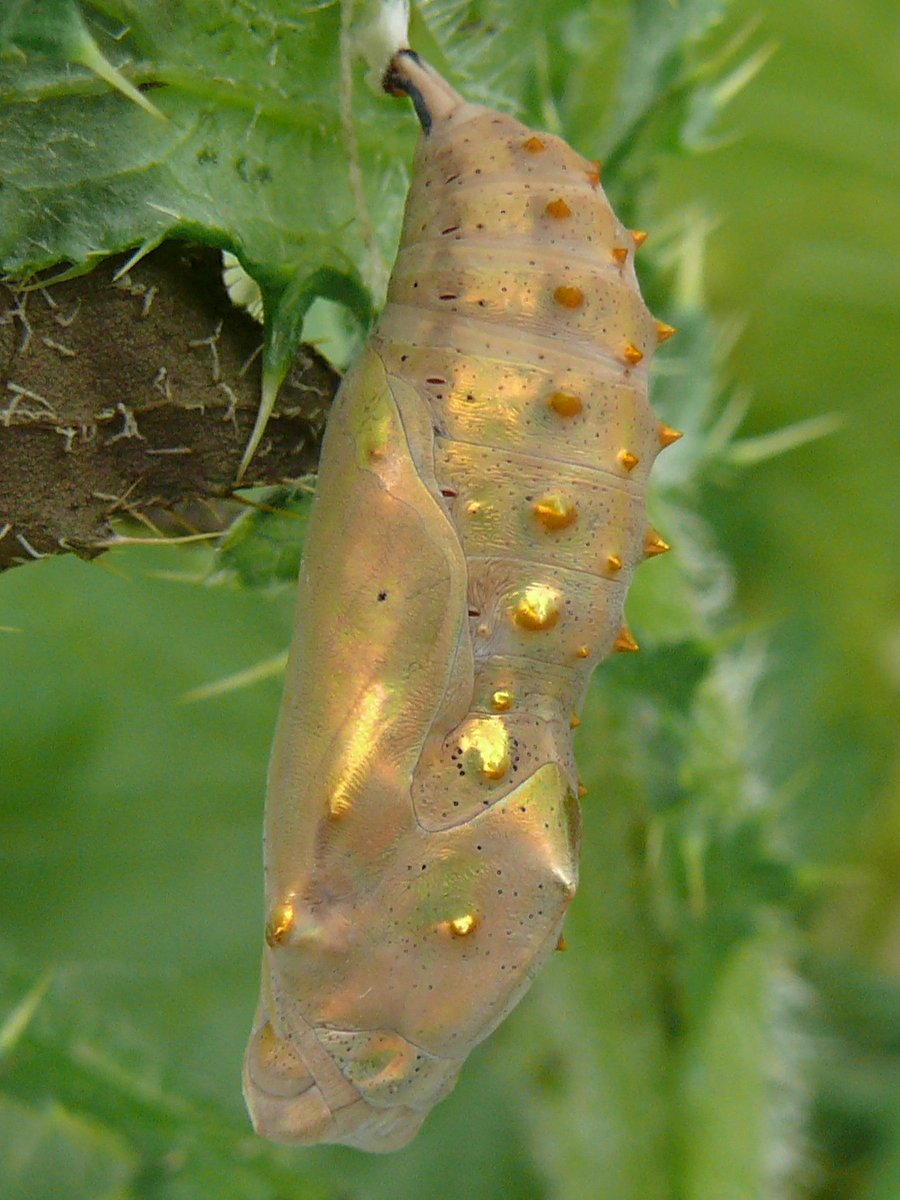 Pupa of Painted Laidy